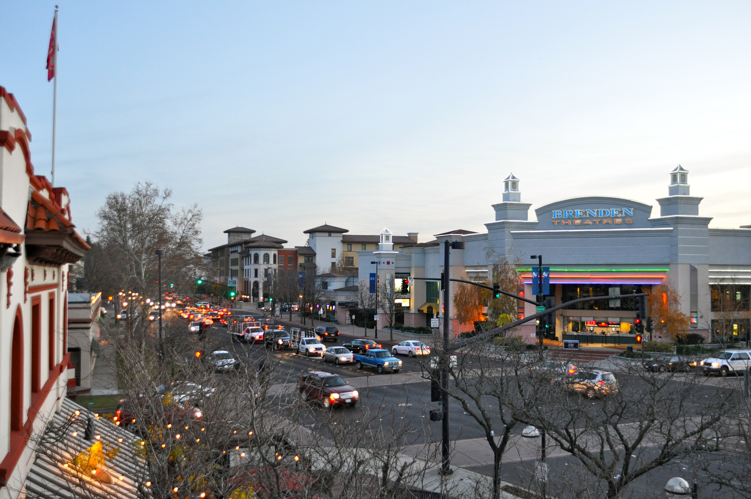 Looking Over Concord Avenue